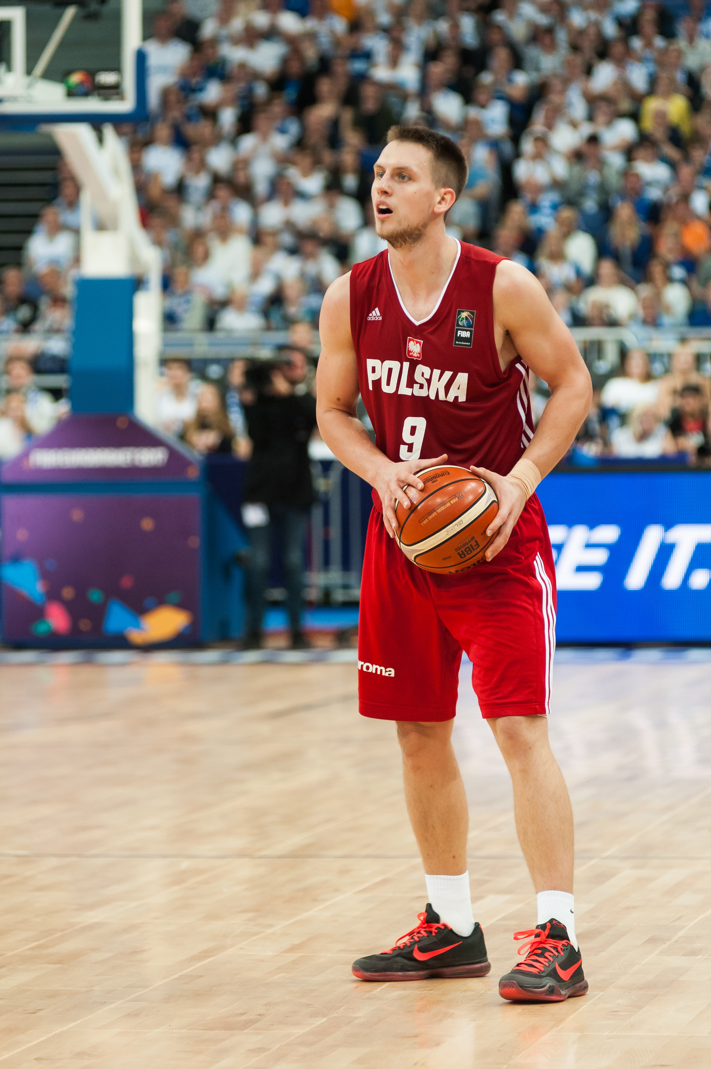 EuroBasket 2017 Group A game between Finland and Poland at Hartwall Arena in Helsinki, Finland.